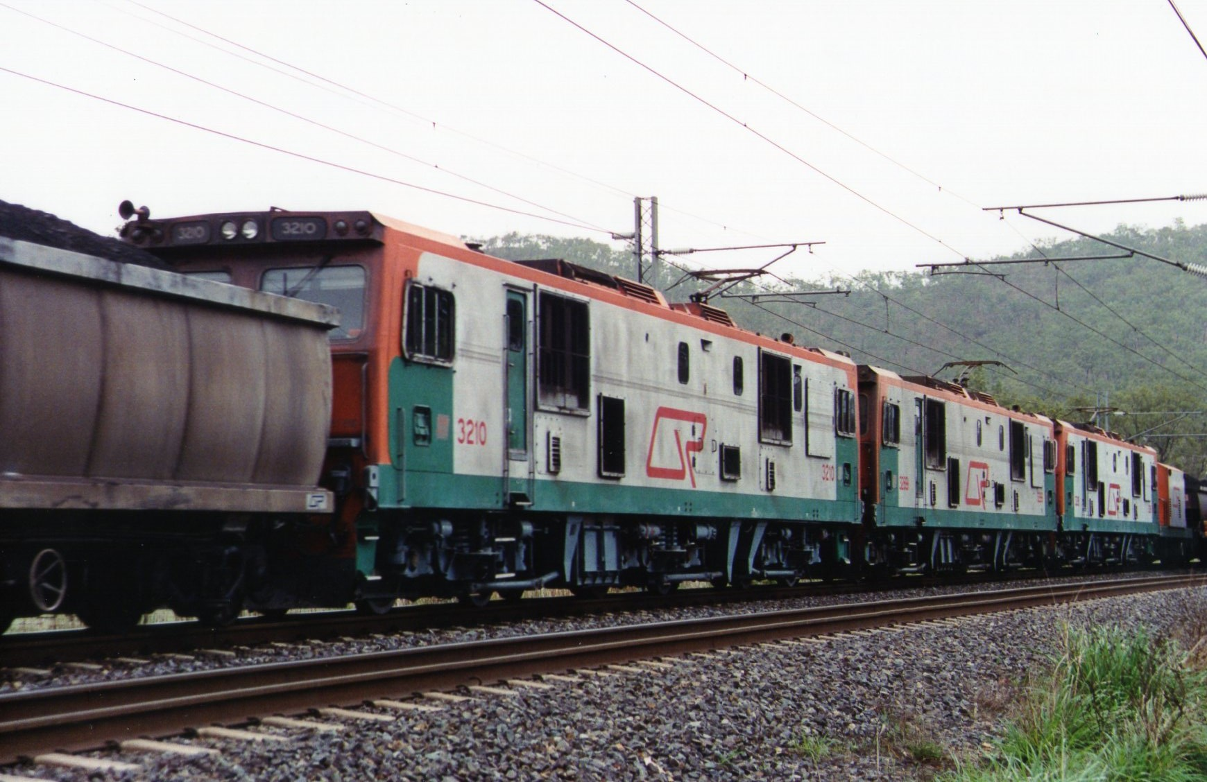 QR electric loco 3210, 2 others and the Locotrol wagon situated mid-train on a loaded coal train, Goonyella line